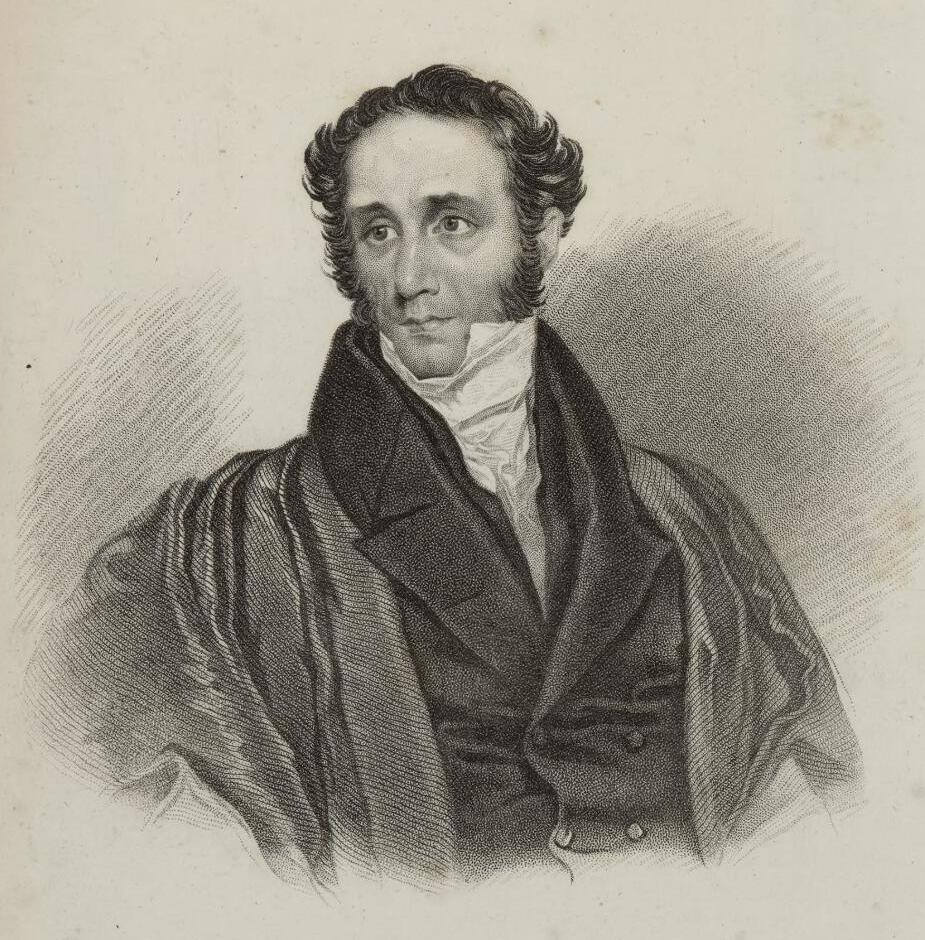 A portrait from the Welsh Portrait Collection at the National Library of Wales. Depicted person: John Hoppus – English Congregational minister, author, and educator